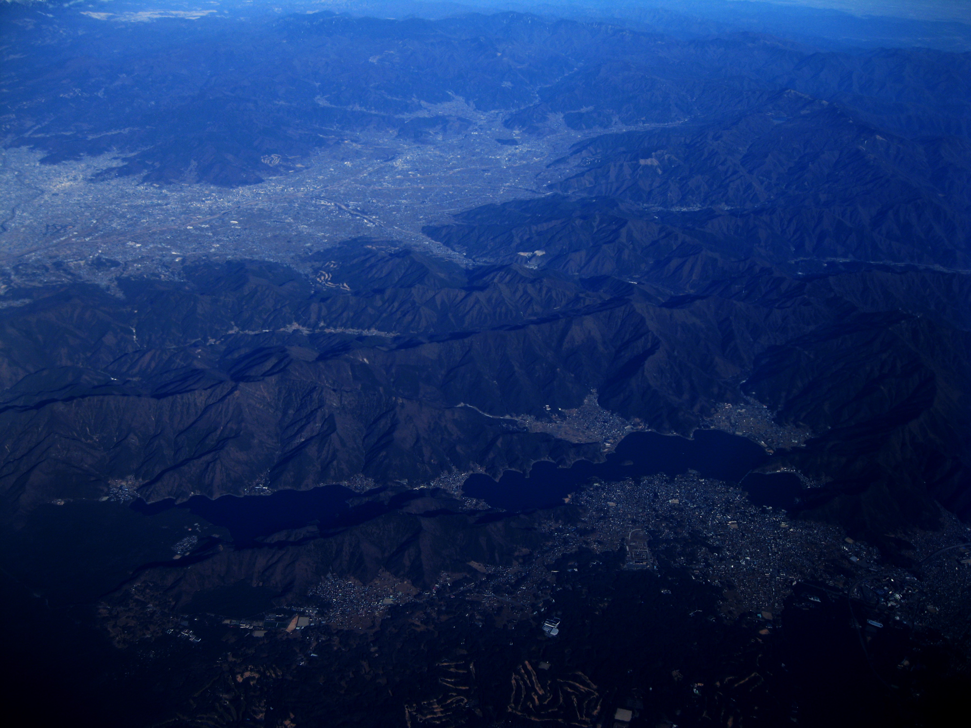 Misaka Mountains and Lake Saiko and Lake Kawaguchi as seen from the South.